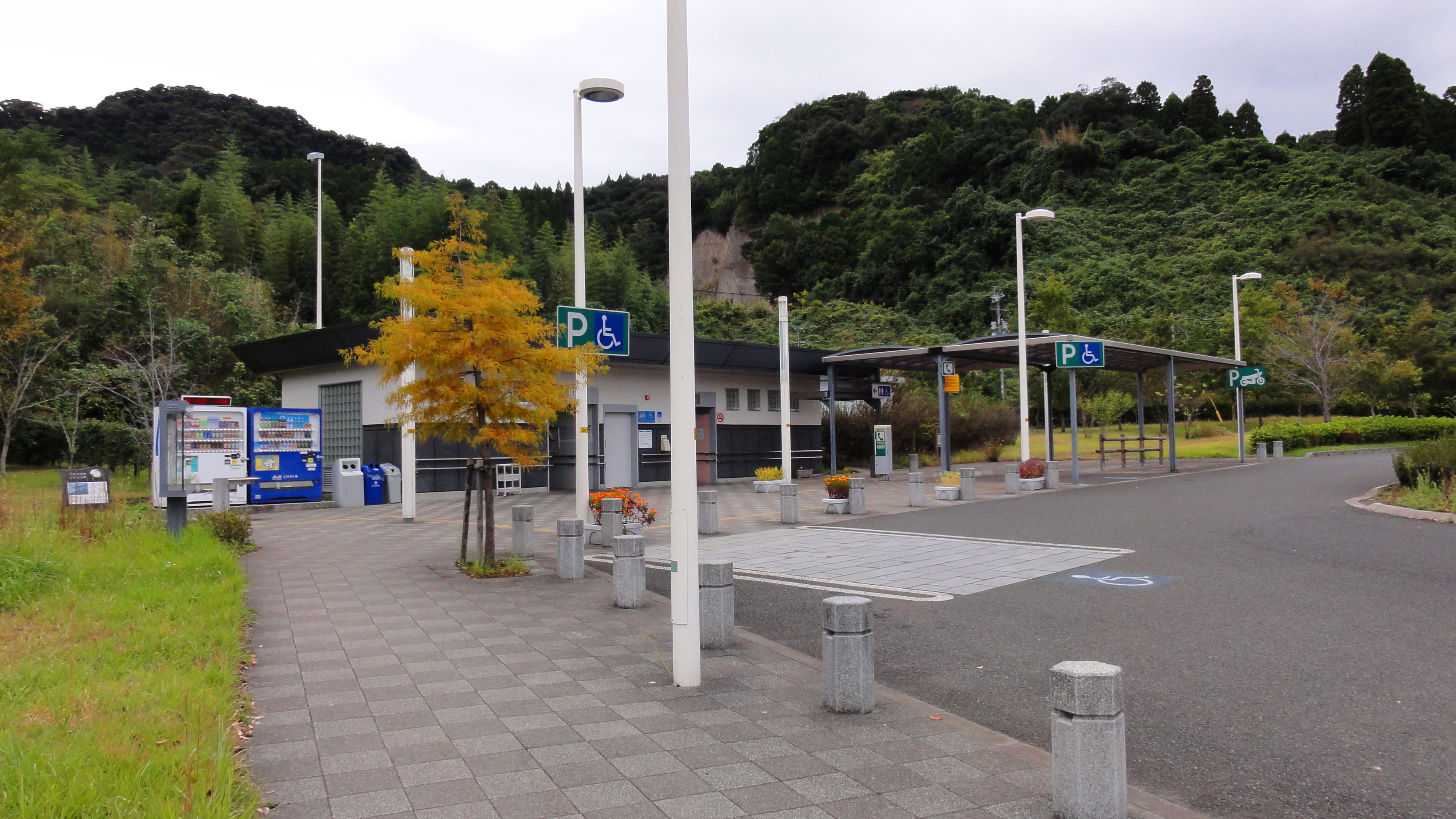 Kokubu Parking Area,Kagoshima prefecture,Japan